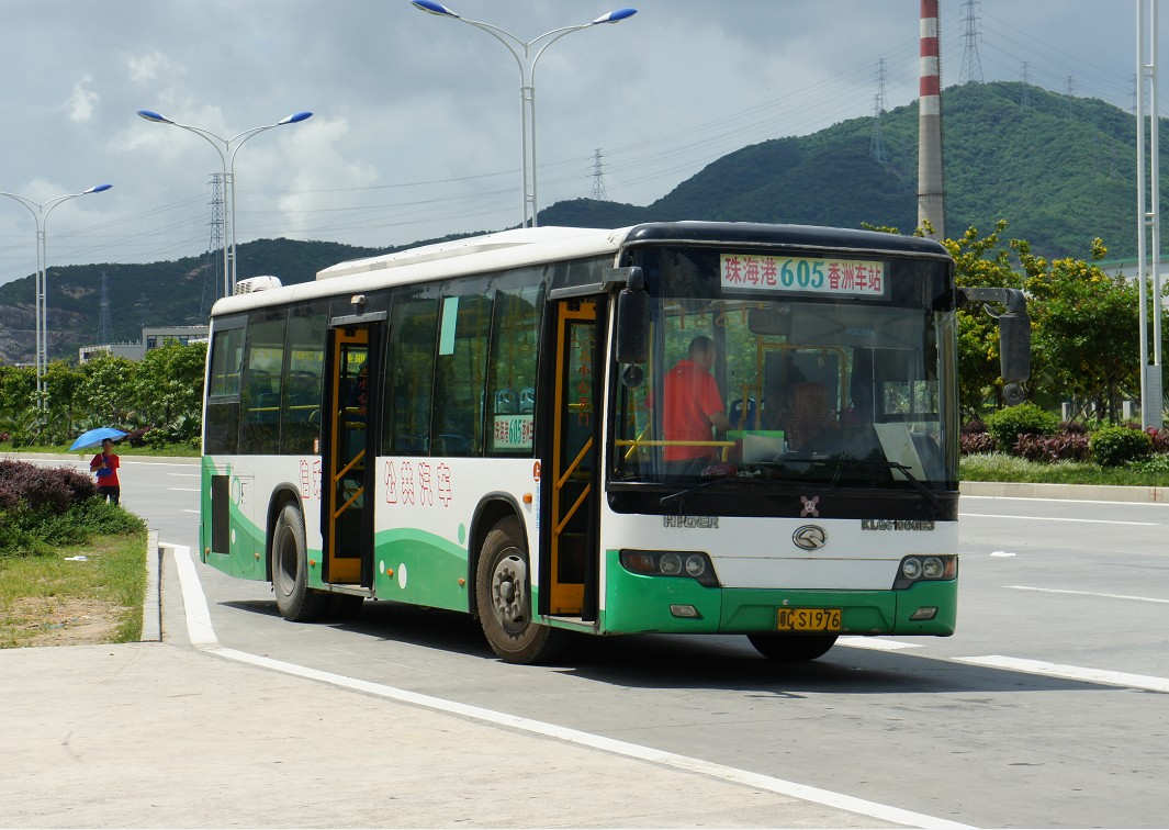 Zhuhai Bus Route 605